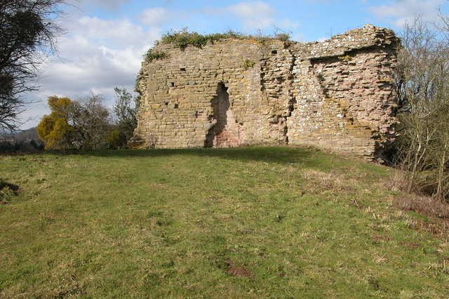 Fragments of Kilpeck Castle, Herefordshire, England